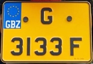 Gibraltar motorcycle license plate